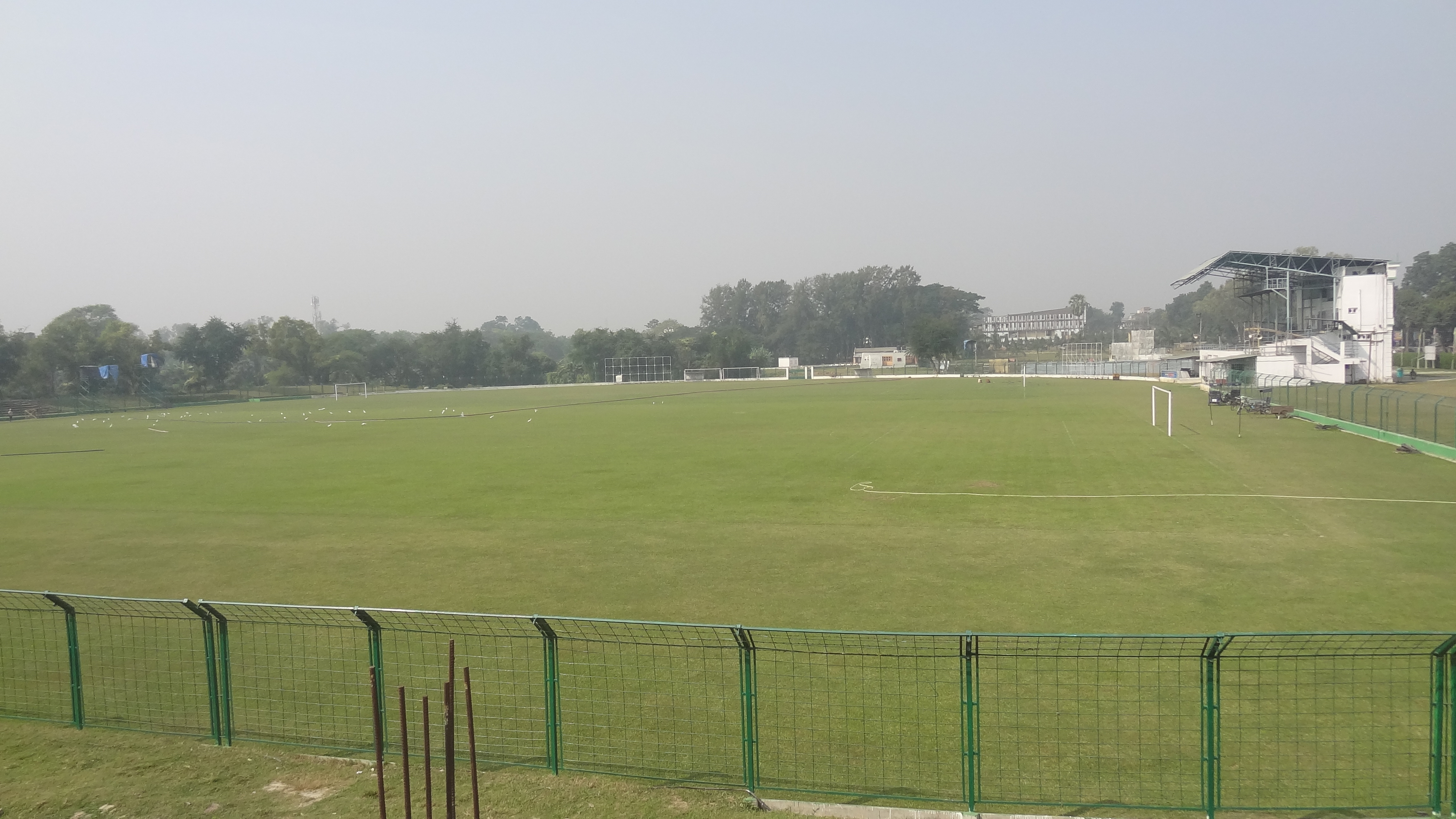 Kalyani Stadium